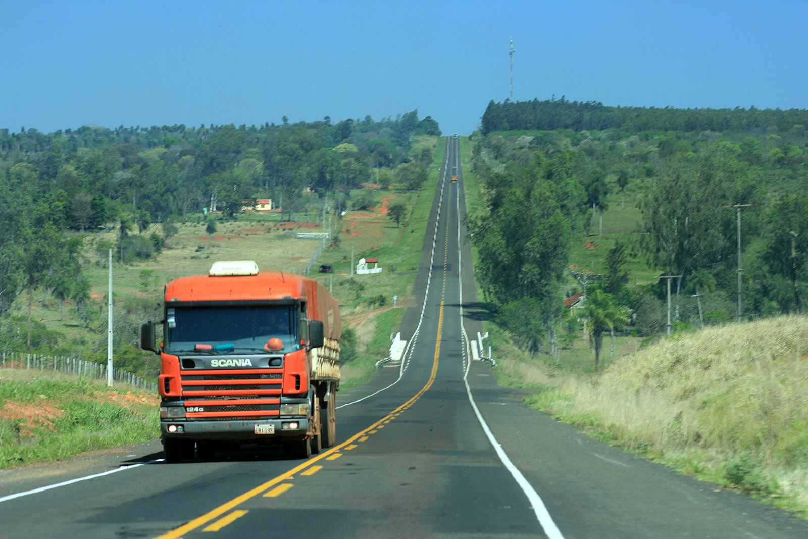 Route 3 in Concepción Department.